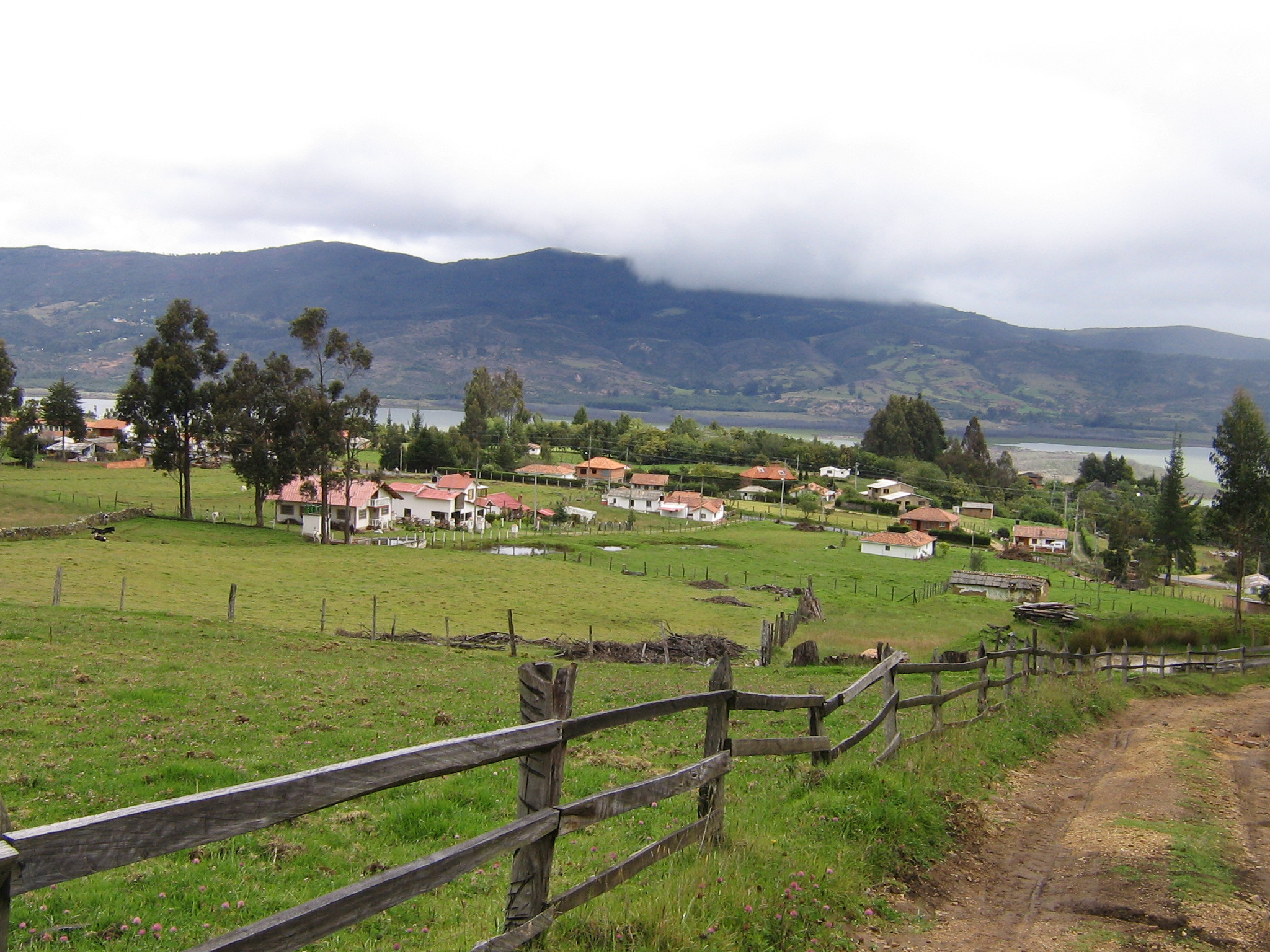 Guatavita view